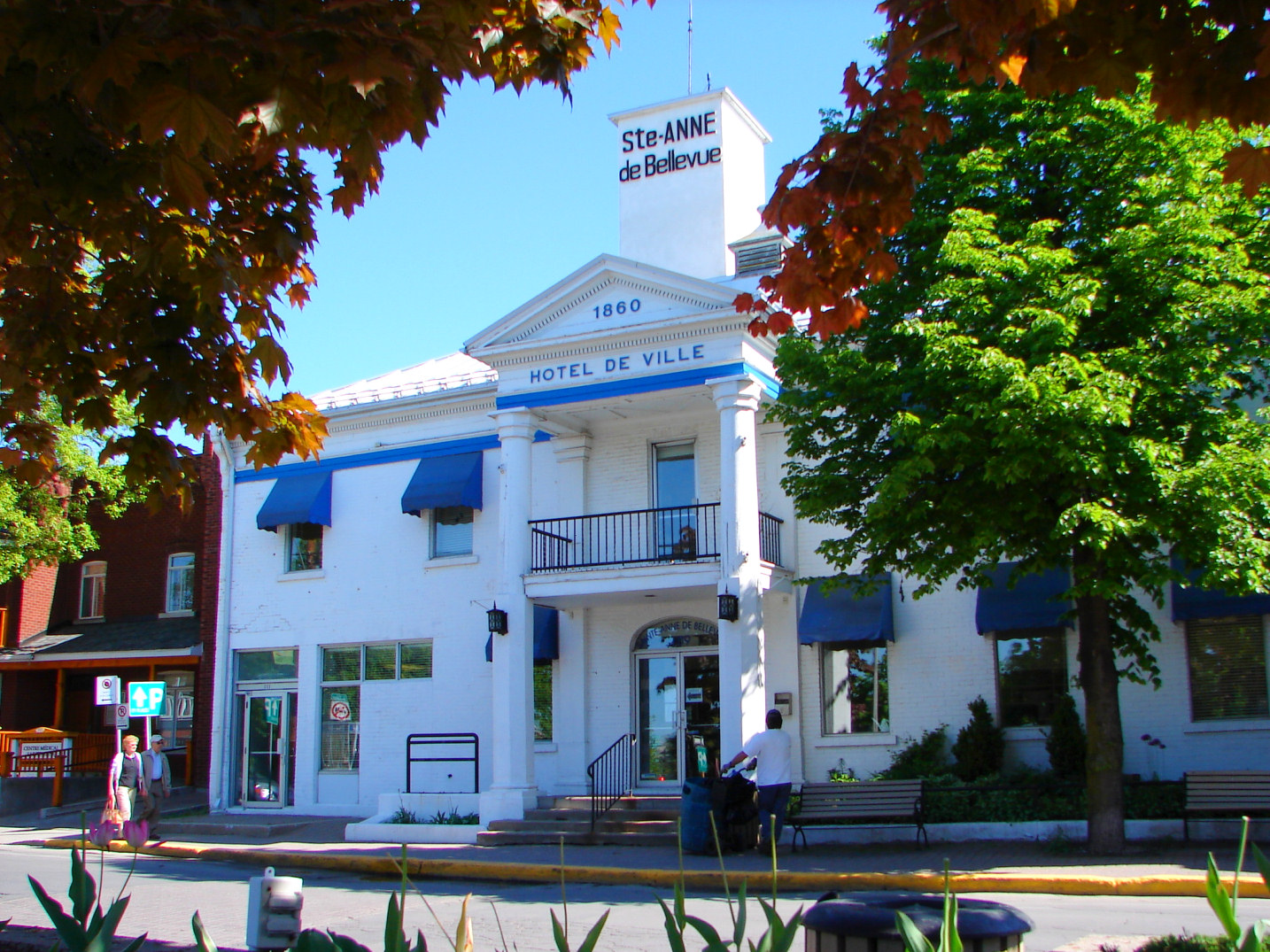 Town Hall of Sainte-Anne-de-Bellevue, Quebec, Canada